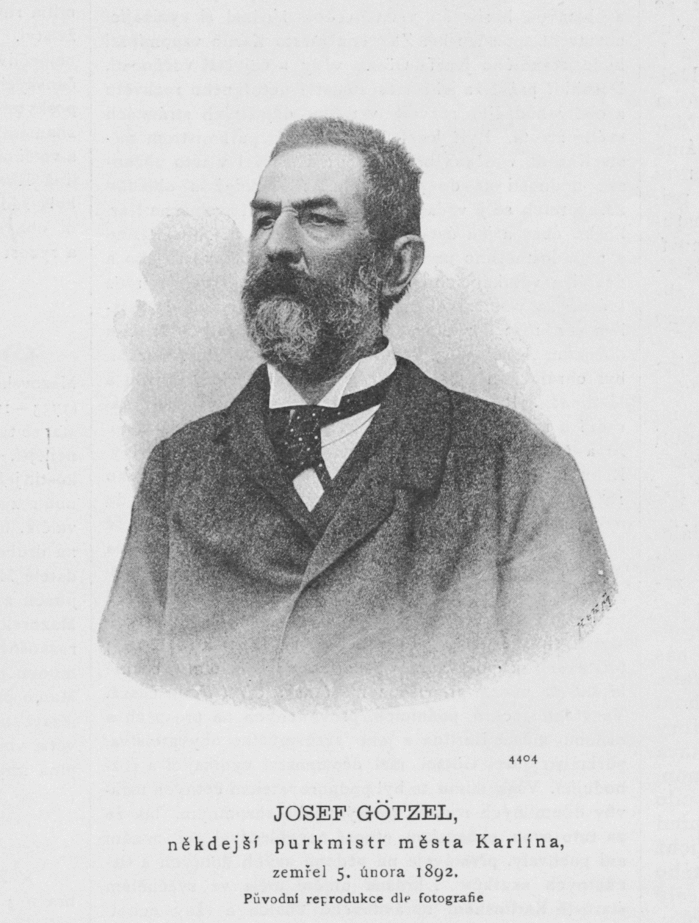 Portrait of Josef Götzl (cca 1820-1892), Czech entrepreneur and politician.